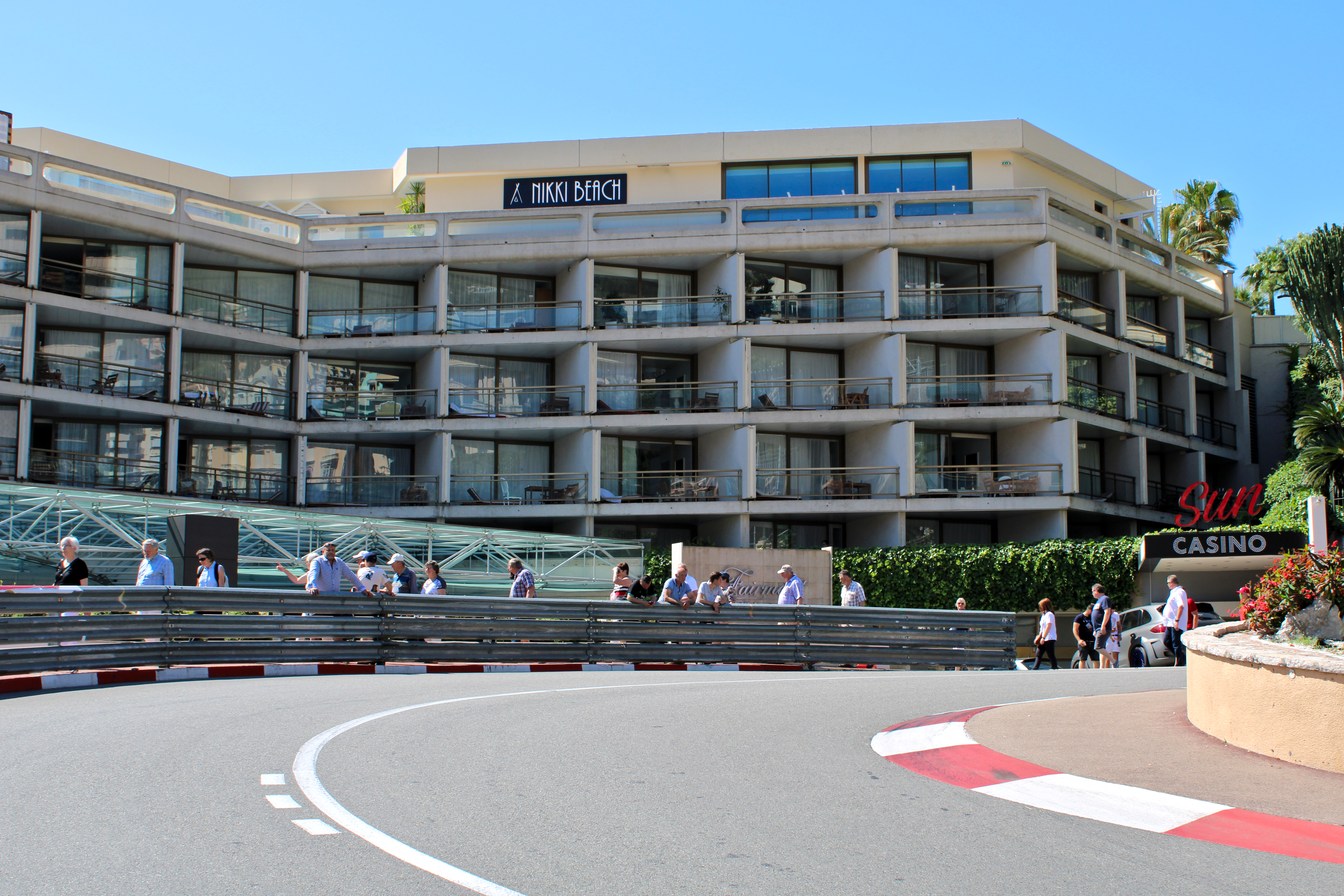 Fairmont Hotel in Monaco